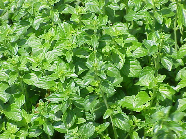 Species: Calamintha nepeta nepeta Family: Lamiaceae Image No. 1